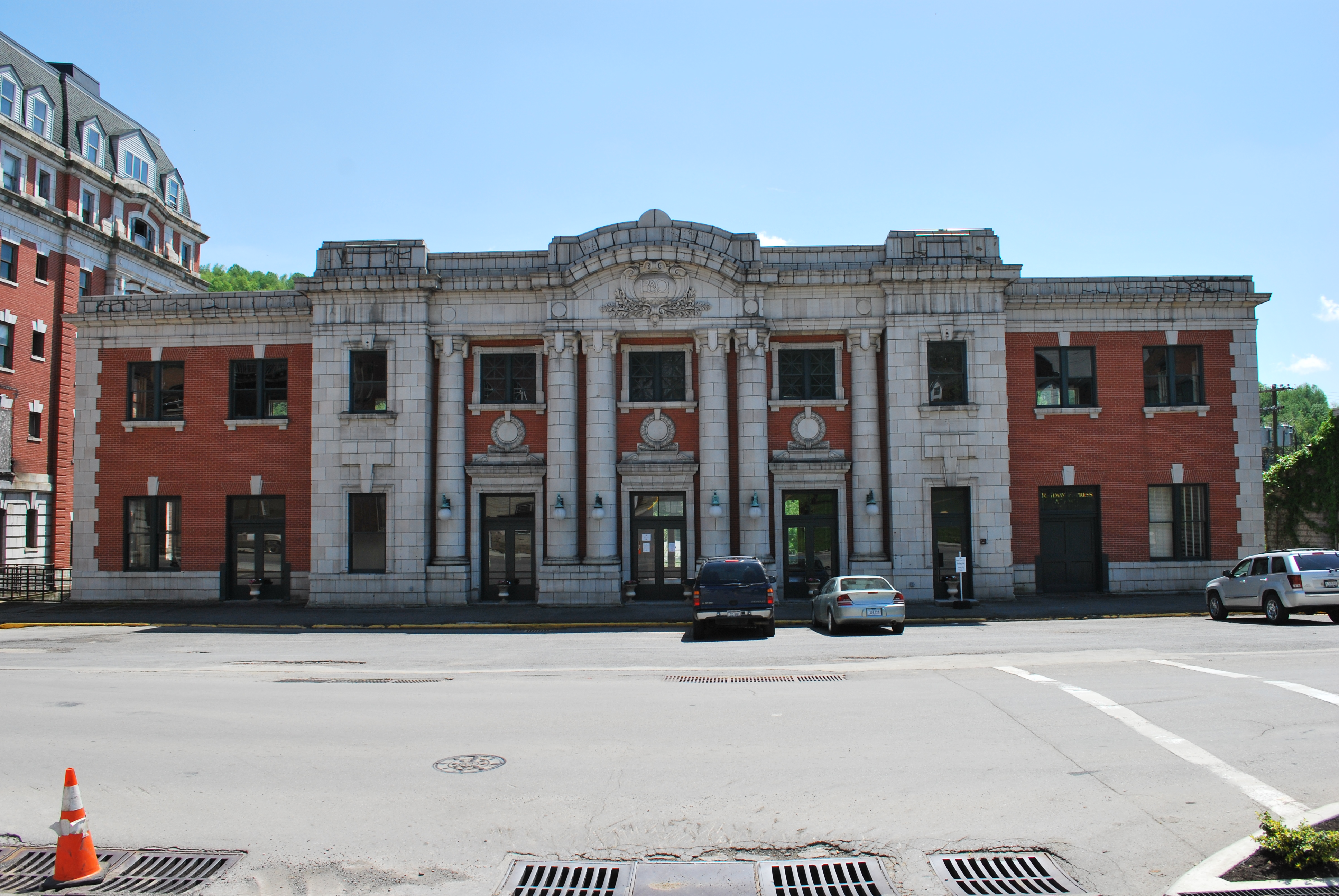 Photo of the Baltimore and Ohio Railroad depot in Grafton, West Virginia.